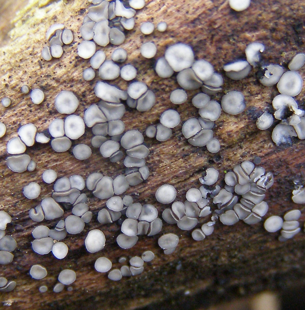 A disco fungus of genus Mollisia.